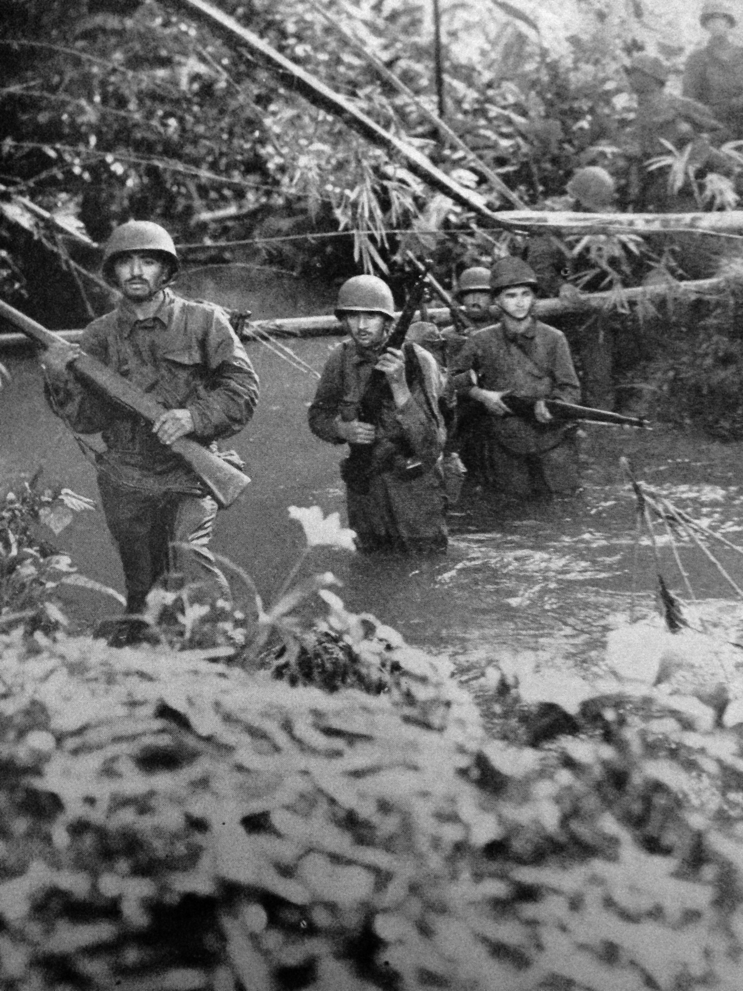 Soldiers of the 172nd Infantry (United States) slowly ford a stream through a jungle terrain on Munda Island, July, 1943.